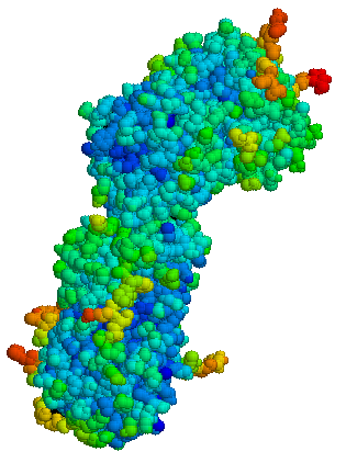 Antithrombin drawn from PDB 1E03 in Rasmol and Microsoft Phote Editor 23:20, 19 March 2006 Jfdwolff 315x422 (30626 bytes) ( :en:Antithrombin drawn from PDB|1E03 in Rasmol and Microsoft Phote Editor)